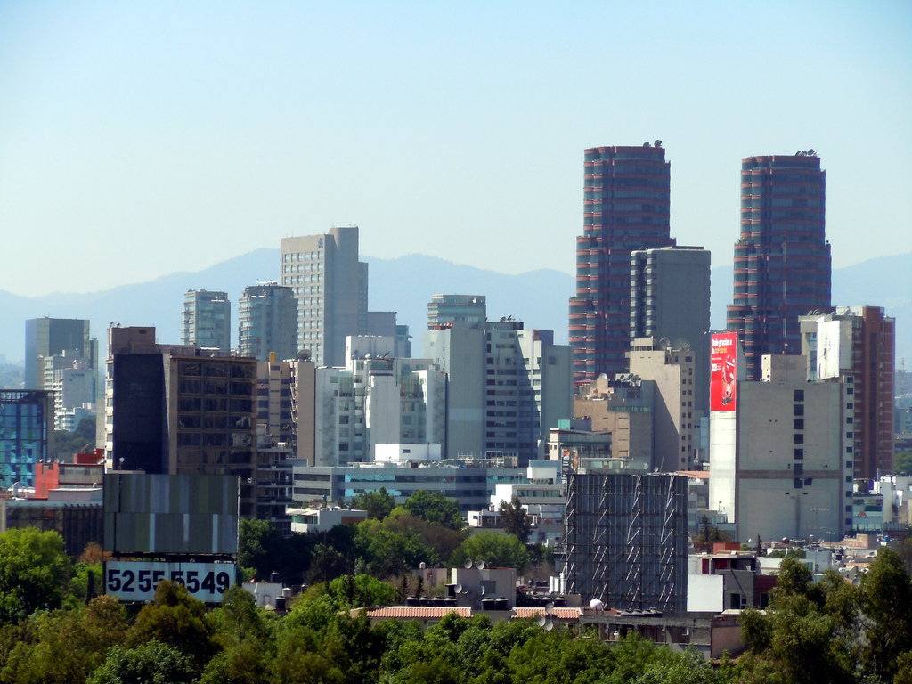 Polanco skyline from the roof. Distrito Federal DF - Ciudad de México - Mexico City - Cidade do México.